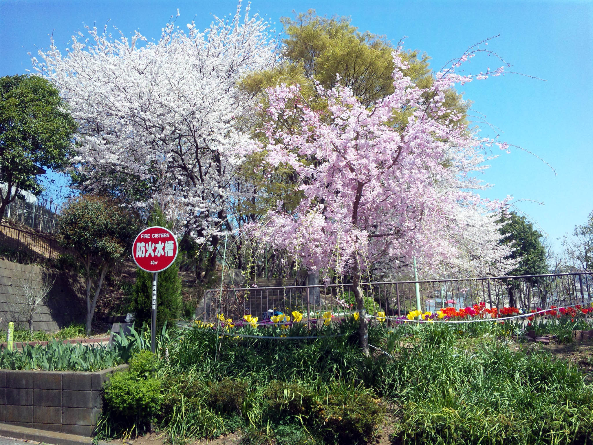 Tennousan Park Shinanotyo TOTSUKA YOKOHAMA